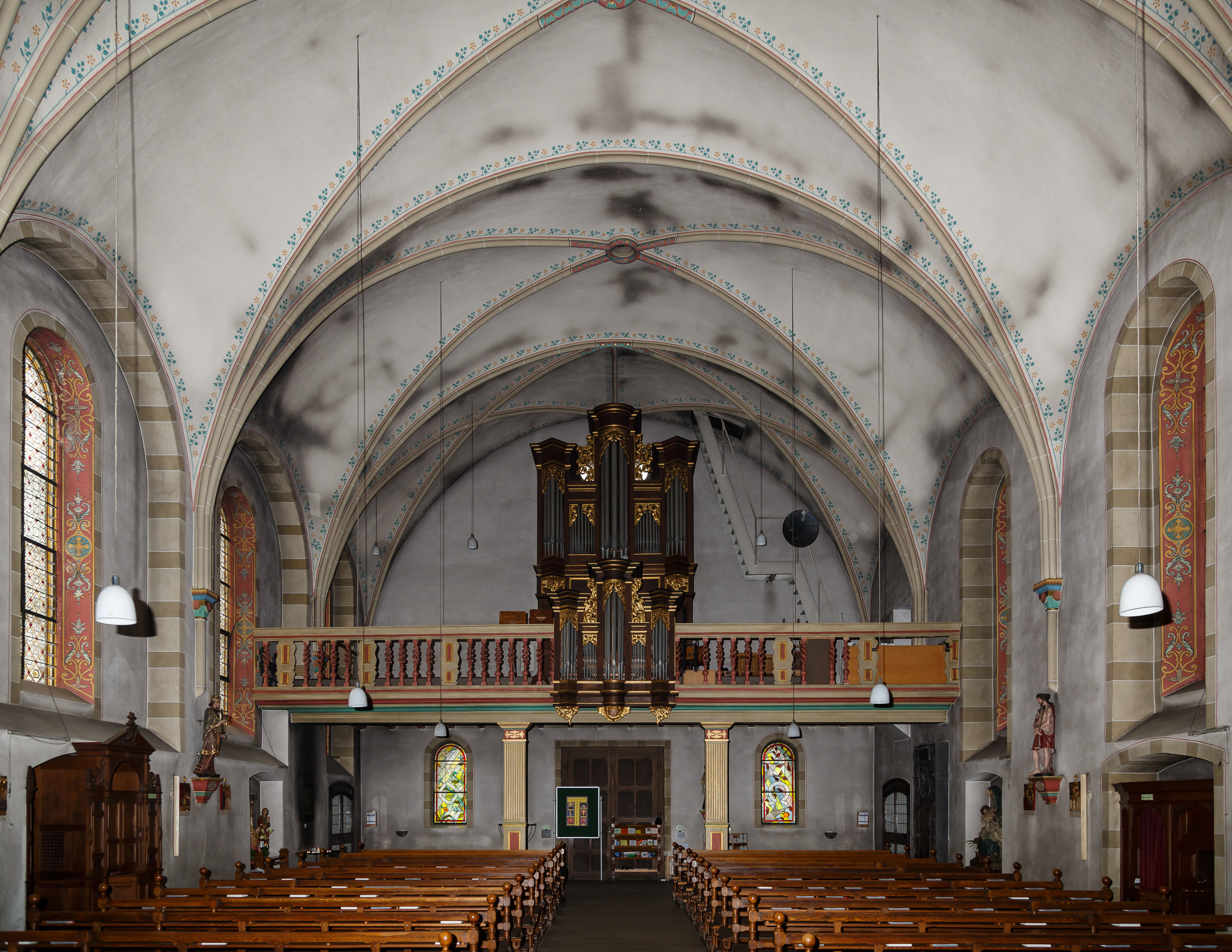 Rösrath, Listed monument number 42, Hauptstrasse 62: Pfarrkirche St. Nikolaus von Tolentino - Interior view from the choir (east) to the organ in the west This is a photograph of an architectural monument.